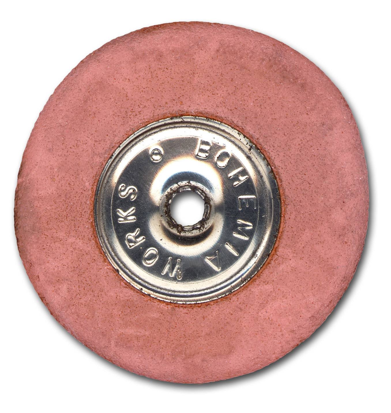 Bohemia Works - Typewriter Eraser 1958., product of Czechoslovakia